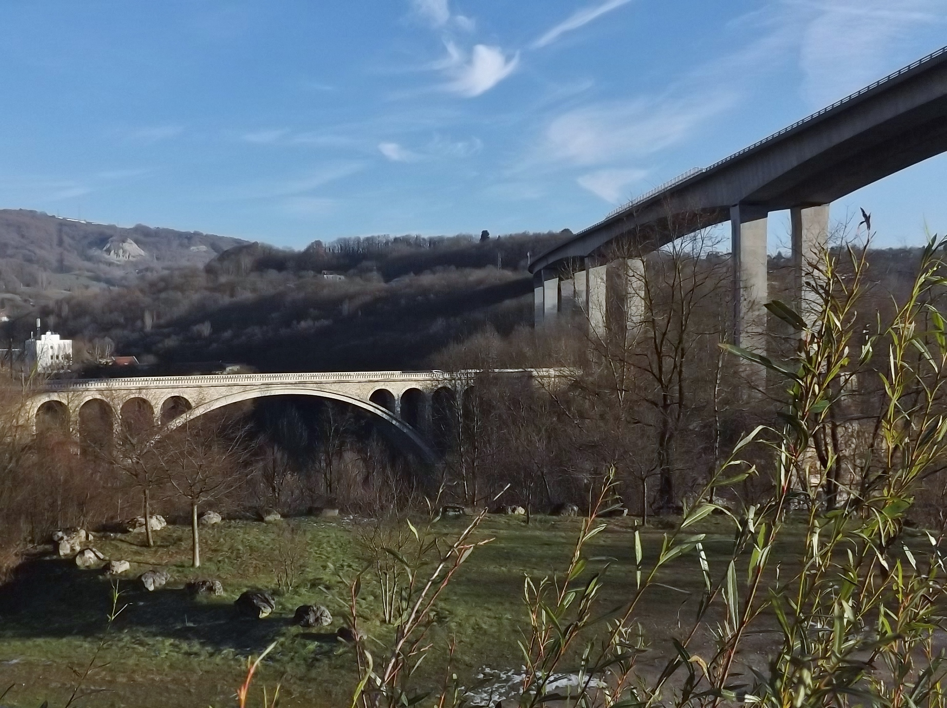 Sight of the pont de Savoie bridge and the viaduc de Bellegarde highway viaduc, crossing the Rhône river between Ain (left and foreground) to Haute-Savoie (right and background), in France.